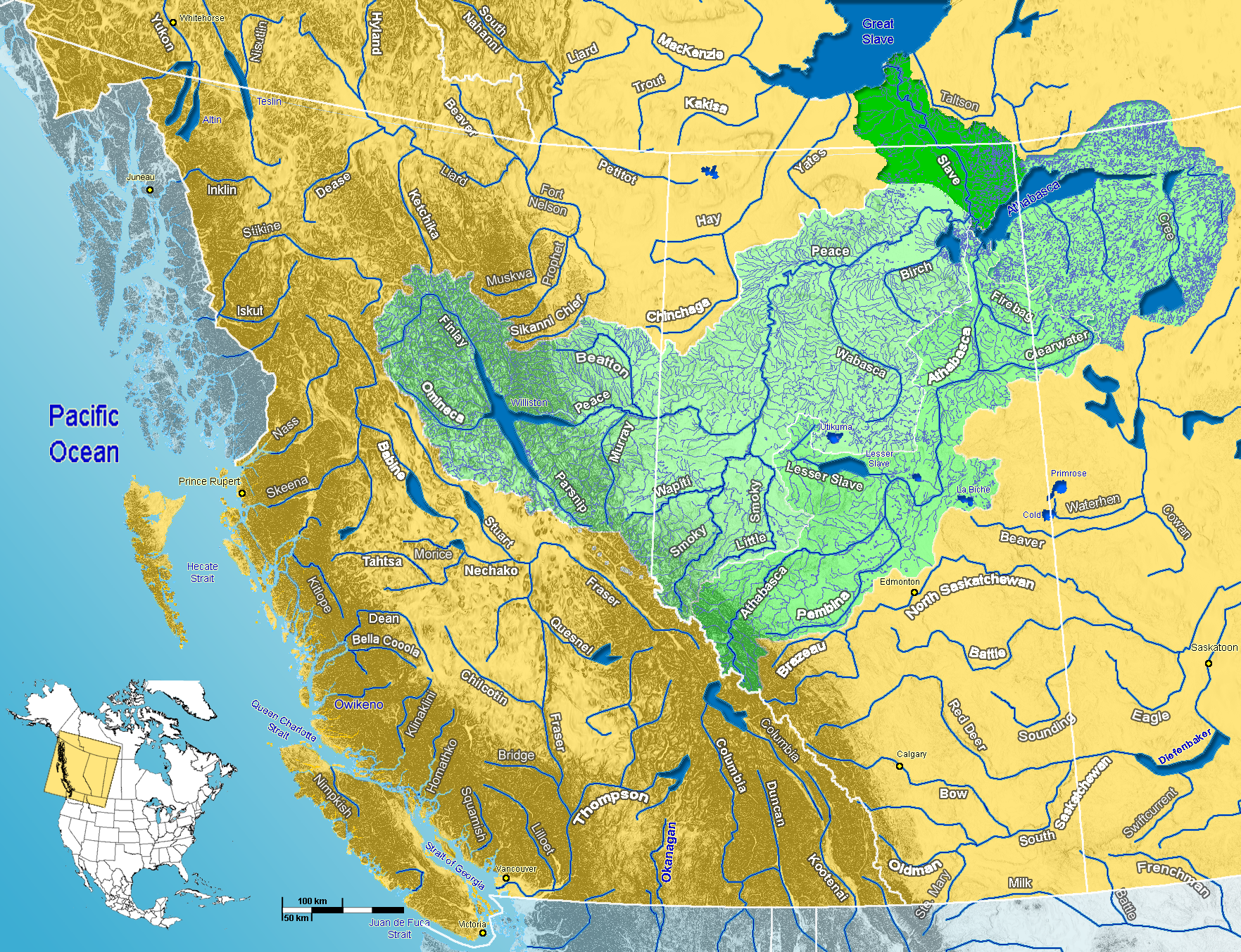 Slave River watershed in western Canada, including watersheds of Lake Athabasca, Peace River, Athabasca River.